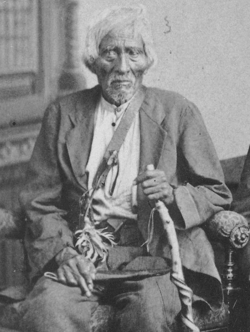 Extract of a 1882 studio portrait of the (then) last surviving Six Nations warriors who fought with the British in the War of 1812. Depicted is Sakawaraton a.k.a. John Smoke Johnson (born circa 1792)